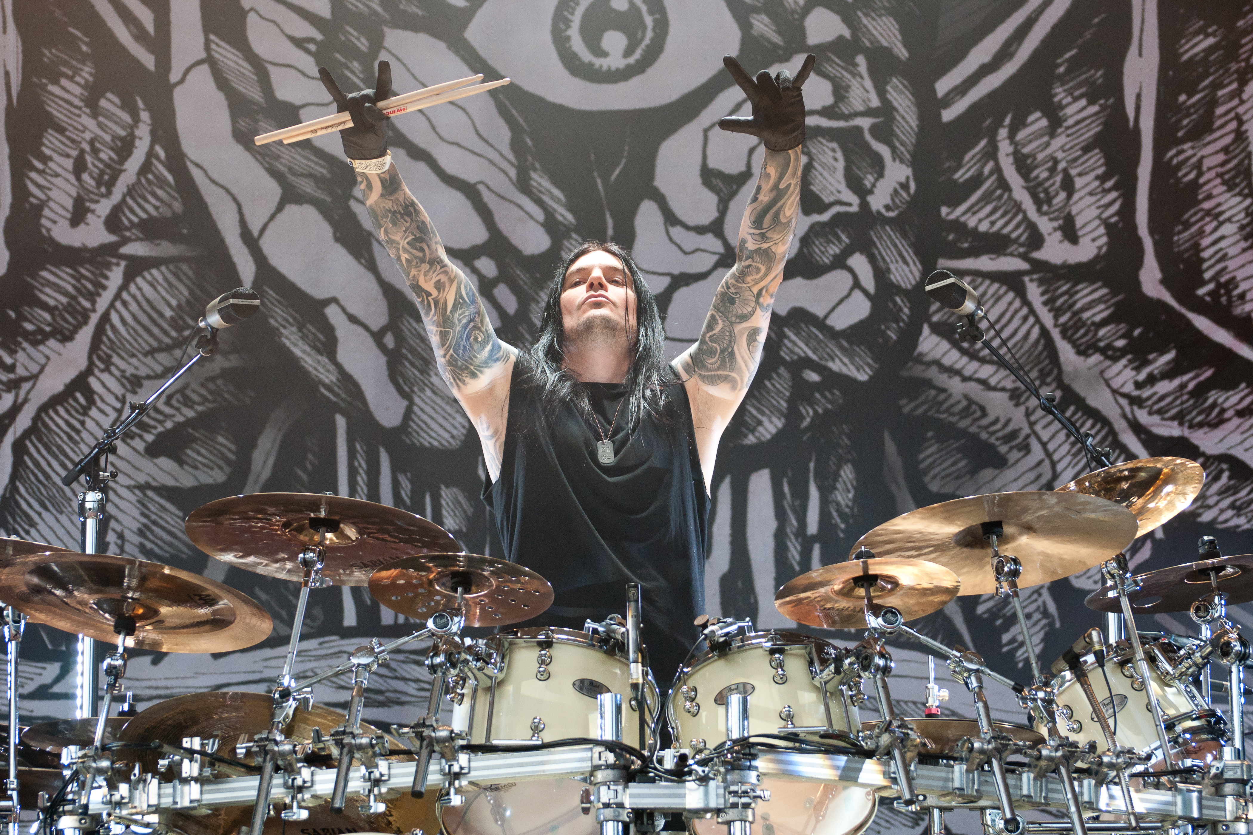 Daniel Erlandsson Arch Enemy - Masters of Rock 2018, Vizovice Czech Republic thnaks to Pragokoncert